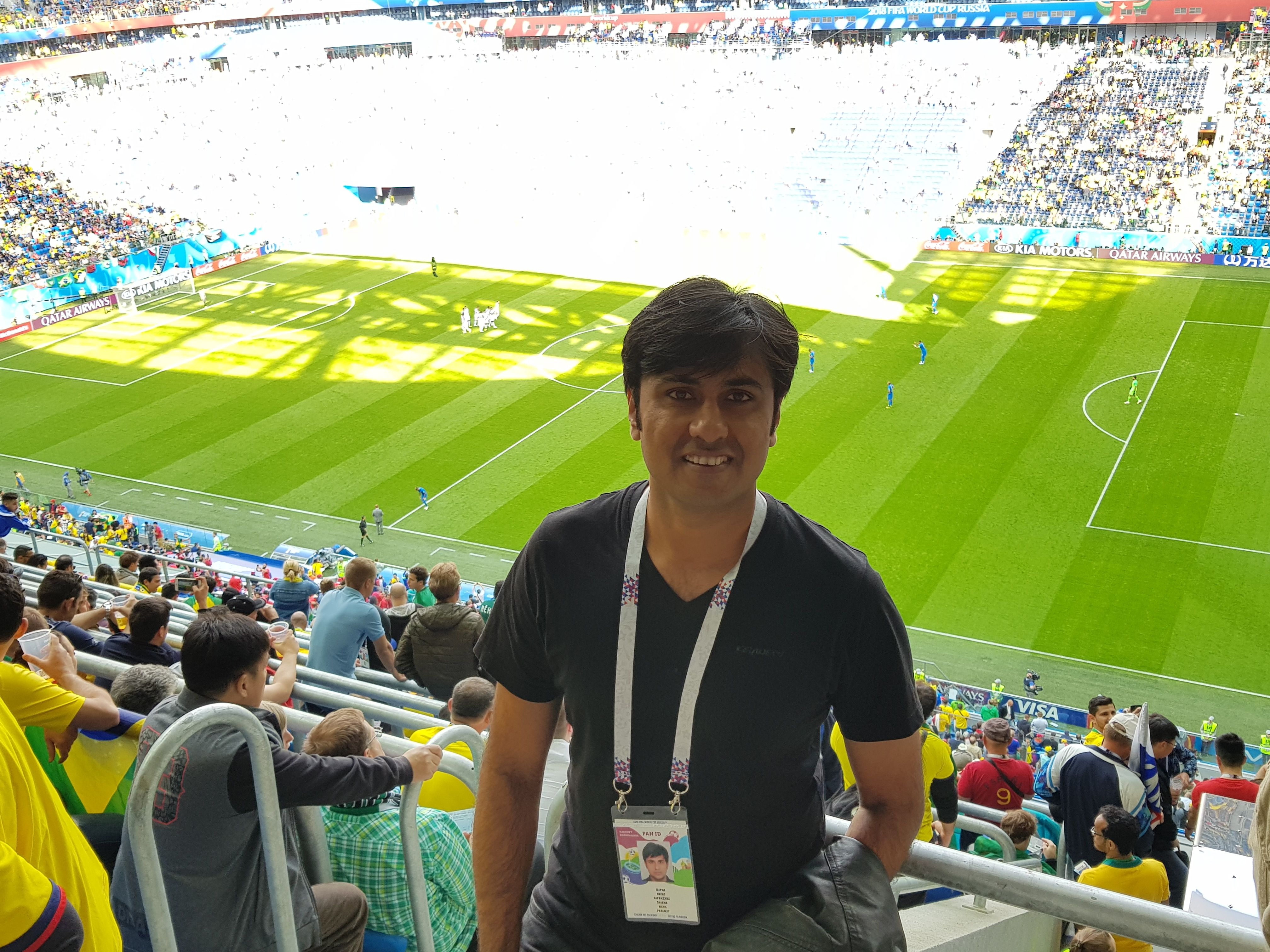 The picture was clicked by the owner on 22 June 2018 at the football match being played between Brazil and Costa Rica at the Krestovsky Stadium, Saint Petersburg.